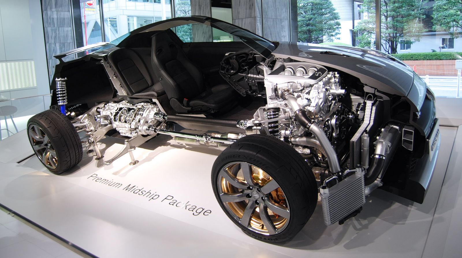 Nissan GT-R Cutway model photographed in Nissan Gallery (Chuo, Tokyo)